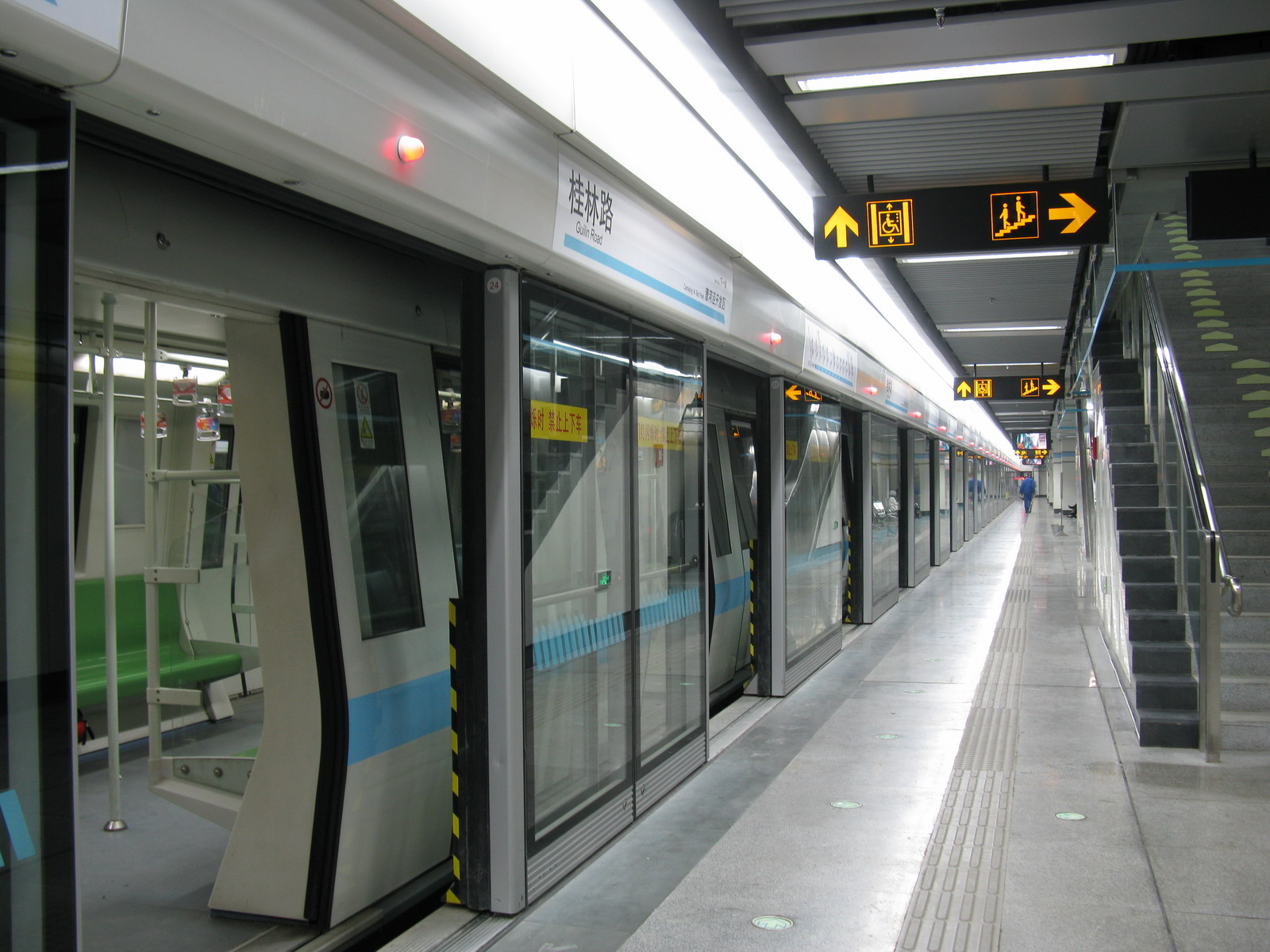 桂林路站 9号线月台及列車 Line 9 Platform & Train of Guilin Road Station